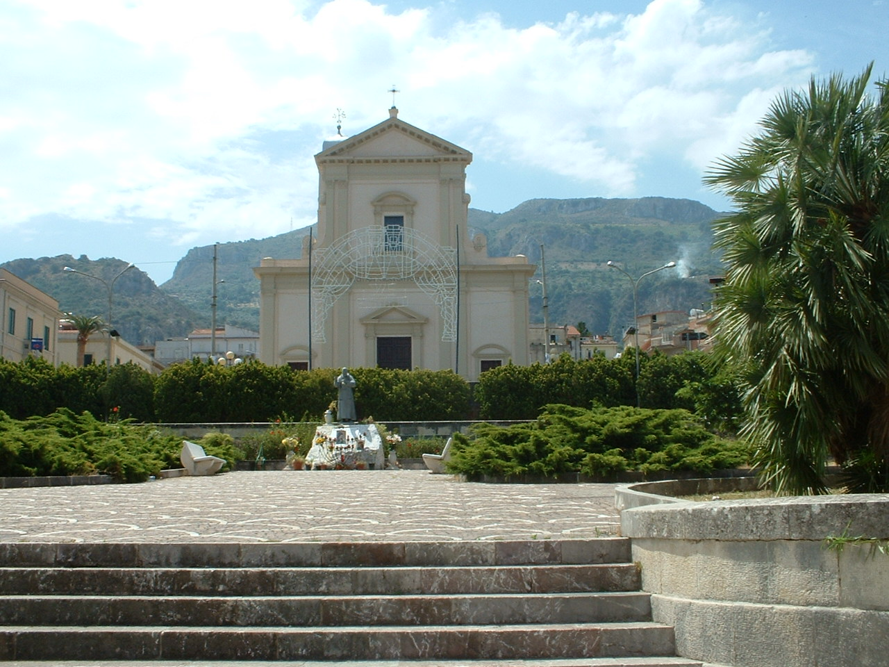 Church of Beata Vergine Assunta, San Benedetto il Moro Parish (1922) in Acquedolci, in Sicily, in Italy